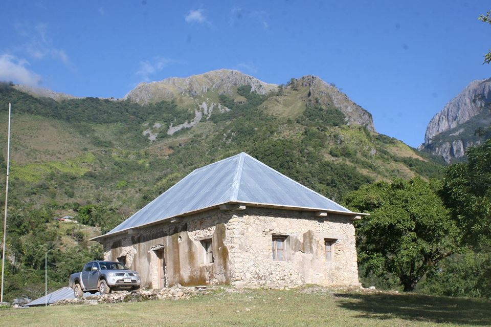 Officio Suco Afaloicai